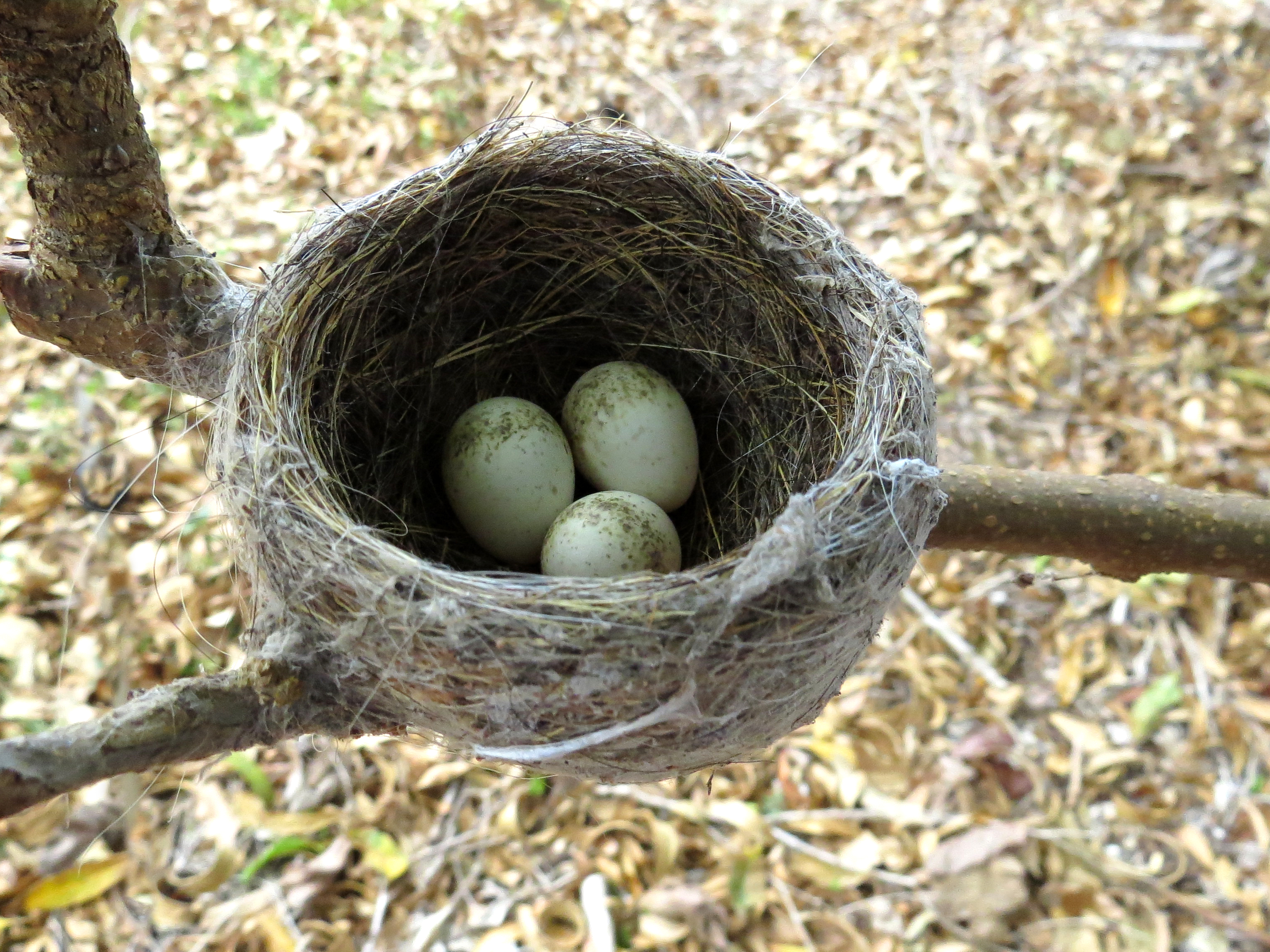 Nest with eggs of the Willie Wagtail (Rhipidura leucophrys) in a suburban park in Cairns, Queensland, Australia